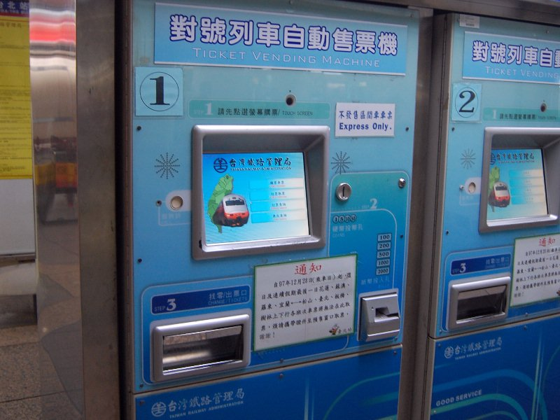 Taiwan Railway Administration long distance express vending machines capable of issuing reserved-seating tickets seen in Taipei Main Station